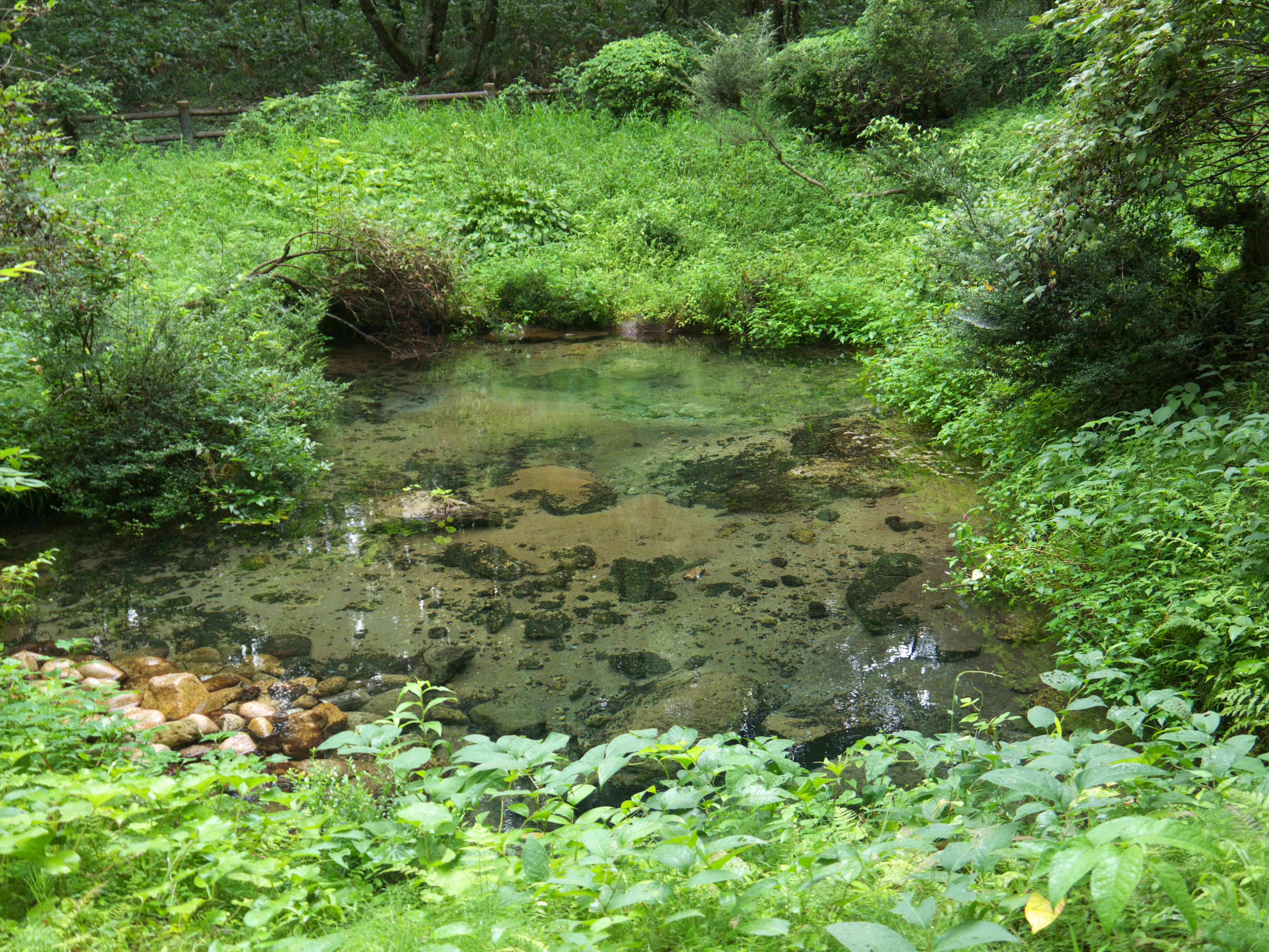 Shiogama Spring in Maniwa, Okayama, Japan